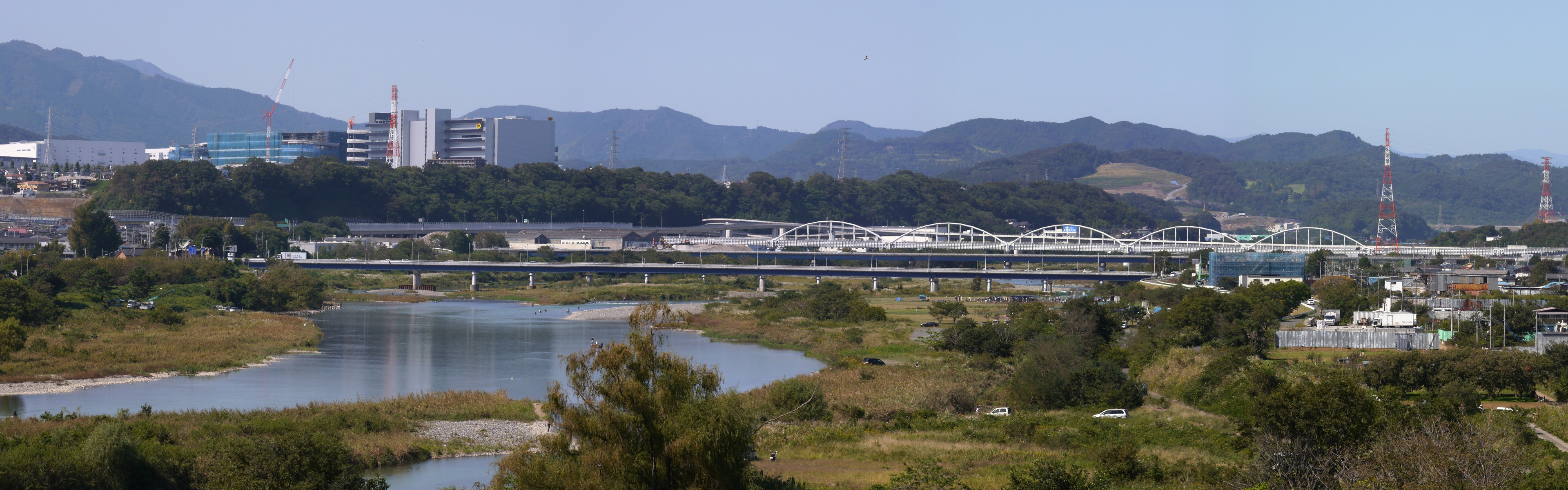 Showa bridge, Shin-Showa bridge and Sagamigawa-suiro-kyou(aqueduct) from Sagamihara, Kanagawa, Japan